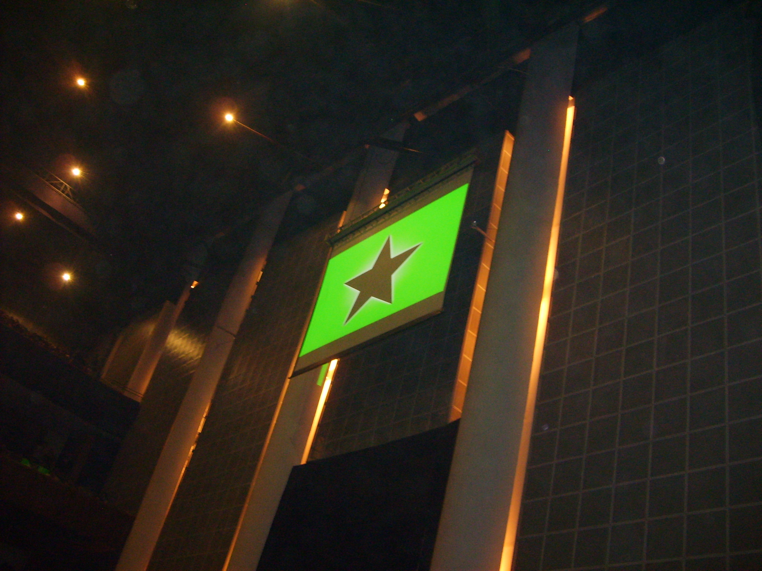 Avril in Sao Paulo, Brazil.